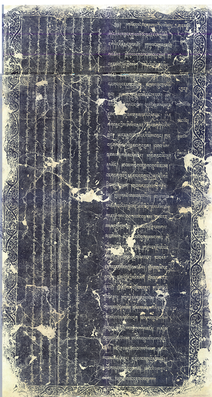 Rubbing of the Stele had written by Qianlong Emperor and made by Agui. The stele has been there for more than 250 years, since Qing dynasty. 中文（中国大陆）: 平定准噶尔勒铭碑拓本（阴面）藏语及蒙语